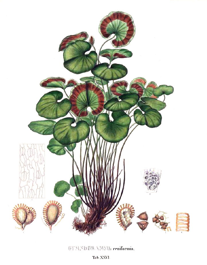 Pterozonium reniforme as Gymnogramma reniformis; "Icones plantarum cryptogamicarum :quas in itinere annis MDCCXVII-MDCCCXX per Brasiliam jussu et auspiciis Maximiliani Josephi I. Bavariae regis augustissimi instituto /collegit et descripsit" : Karl Friedrich Philipp von Martius (1794-1868). Hugo von Mohl (1805-1872). Joseph Prestele. Publication: Monachii:Impensis auctoris, 1828-1834.